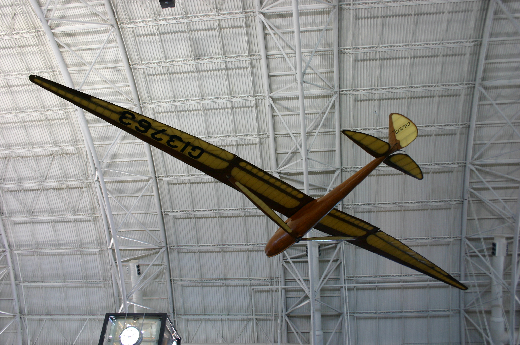 Bowlus 1-S-2100 Senior Albatross "Falcon" at Steven F. Udvar-Hazy Center.